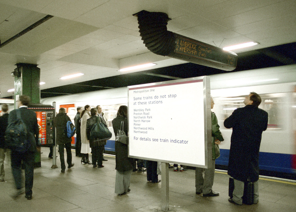 Platform information sign at Moorgate station advising passengers that some Metropolitan Line trains do not call at all stations. Over the years the list of stations 'non-stopped' has varied, with (for instance) at one time Harrow-On-The-Hill and West Harrow being included in the list. The list shown here is correct for 2007, although so few trains now non-stop Wembley Park that it may also soon need removing from the list. Photographed by SP Smiler